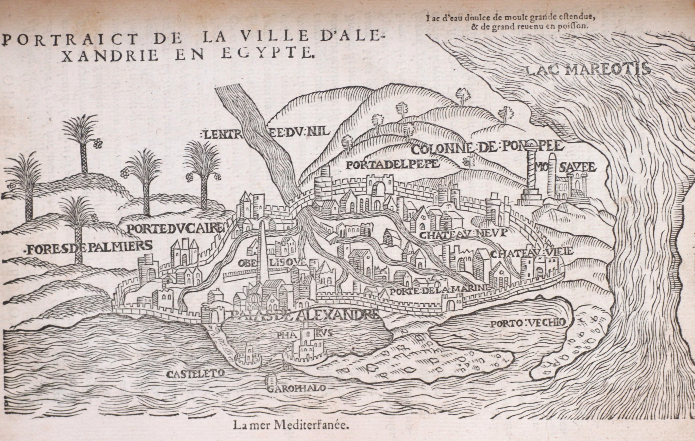 Map of Alexandria in Observations de Plusieurs Singularités by Pierre Belon.